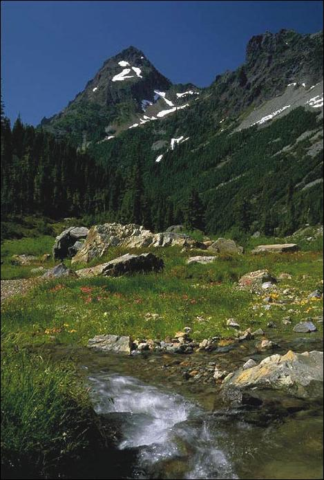 Typical terrain in the Mount Baker Snoqualmie National Forest, Washington, United States.